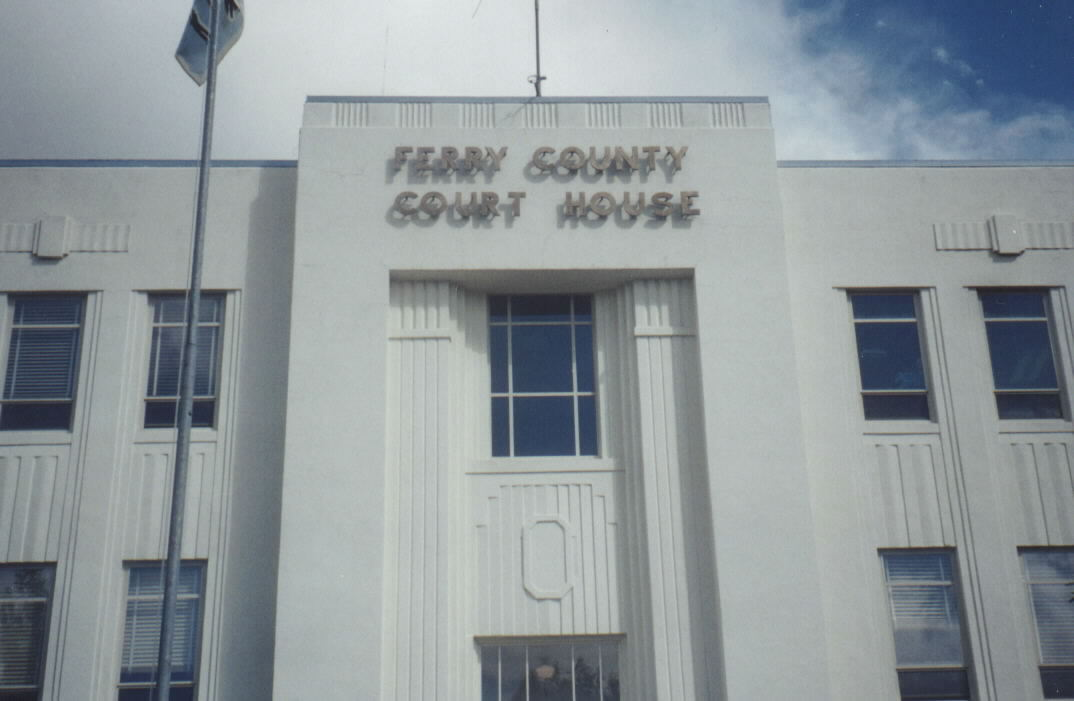 Ferry County Courthouse in Republic, WA.